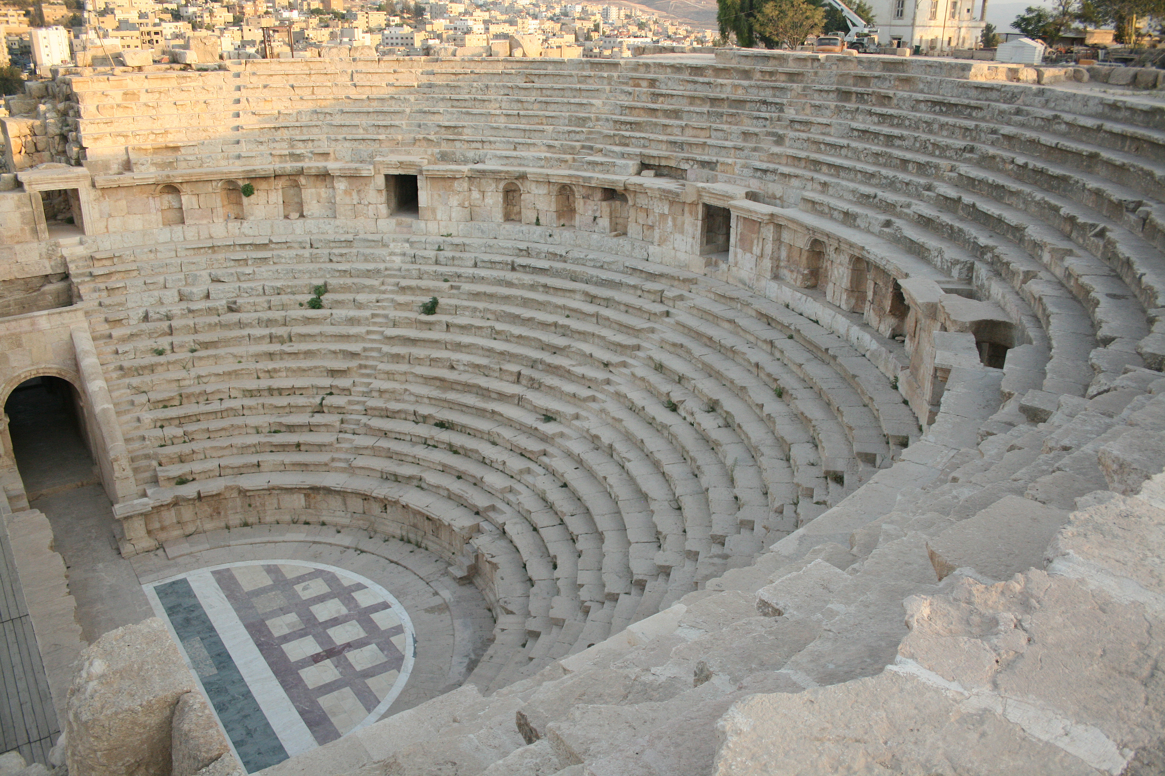 North Theater, Jerash, Jordan